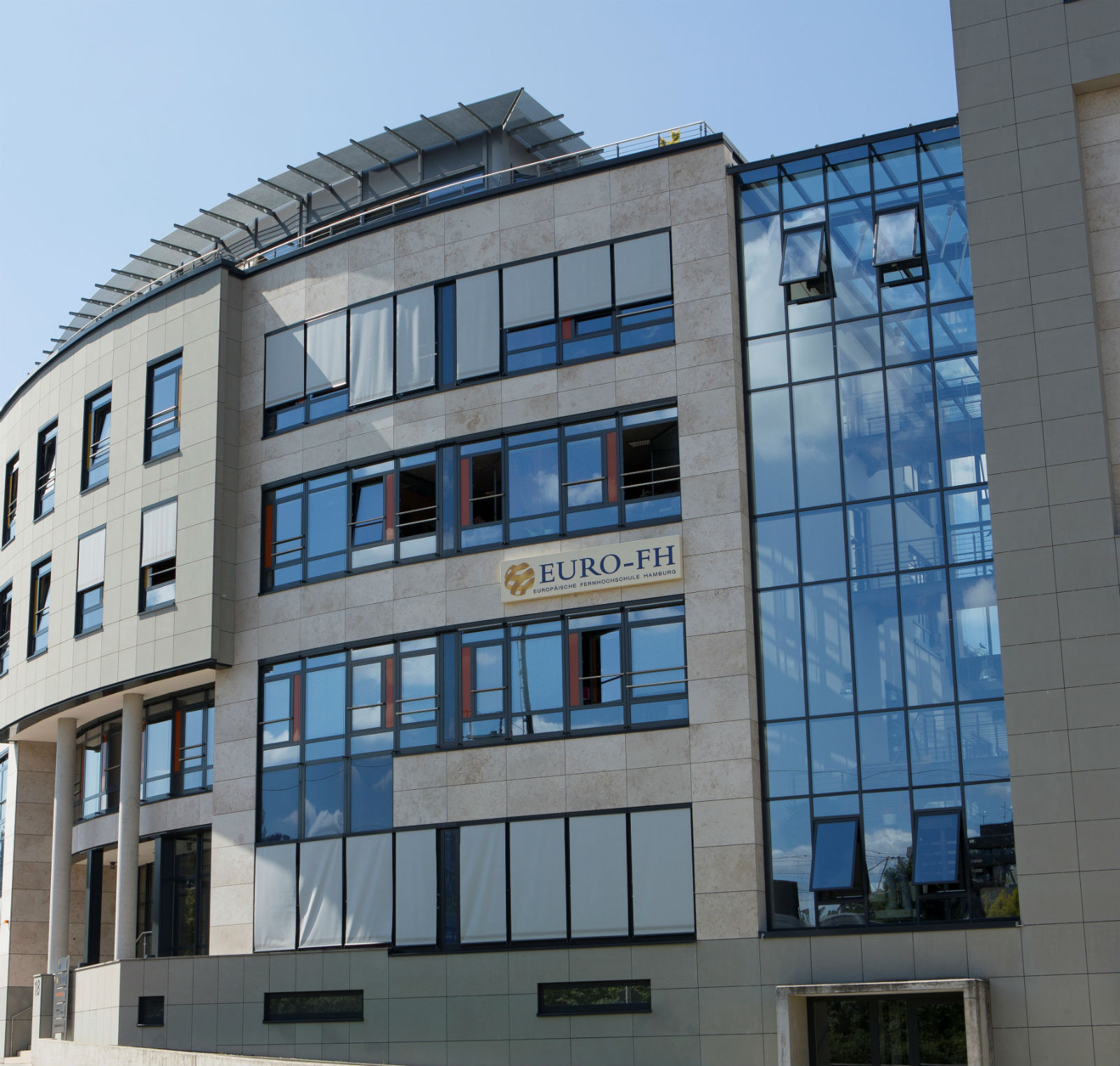 Headquarters of the Euro-FH